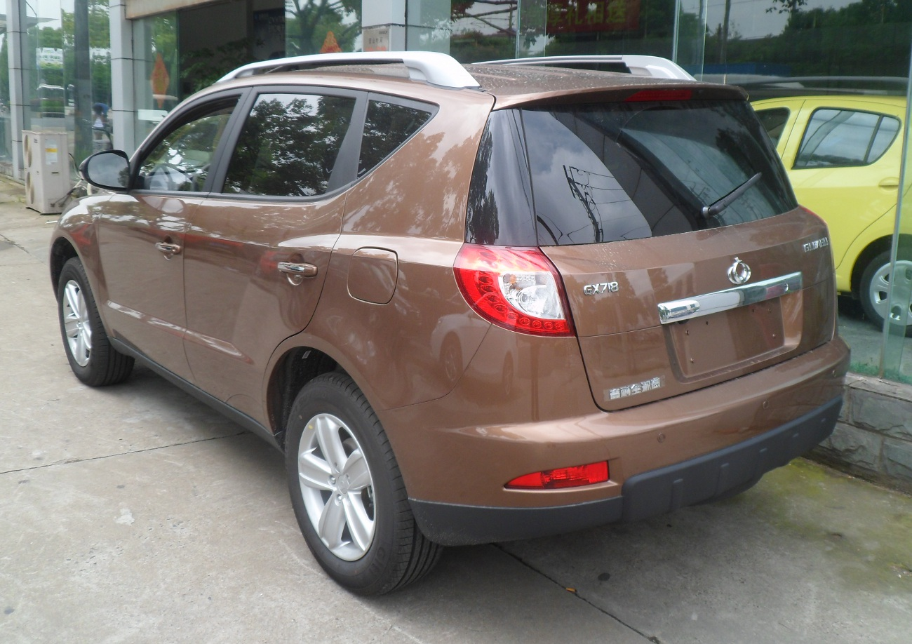 Gleagle GX7 photographed in Shanghai, China.